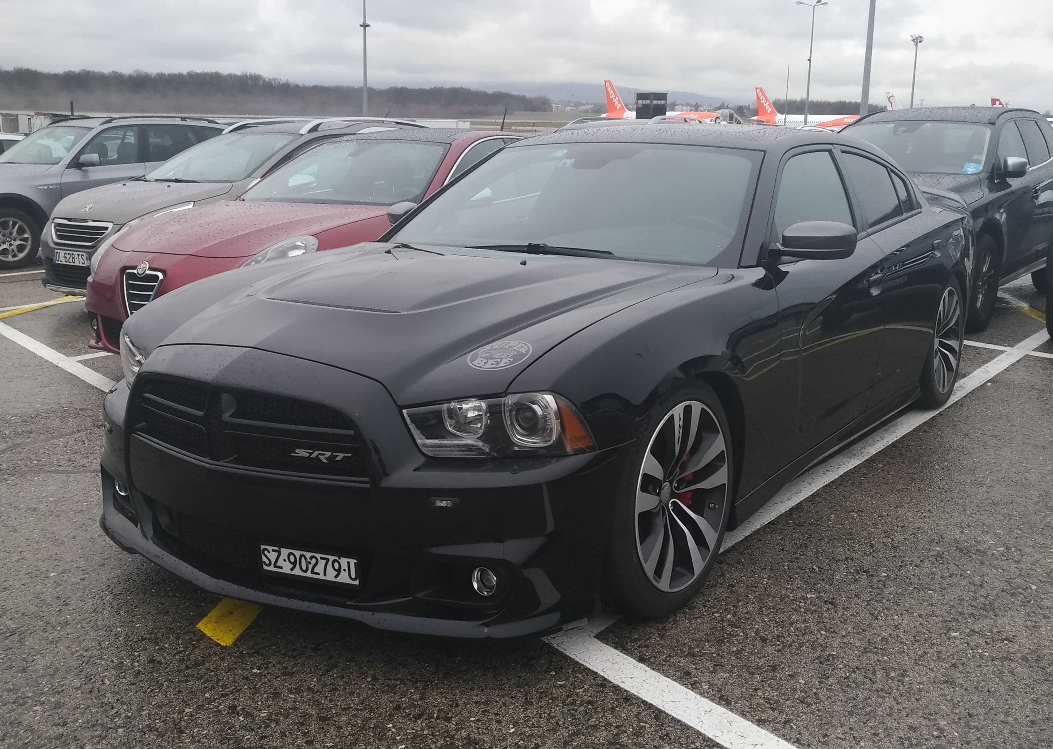 Dodge charger SRT at Geneve